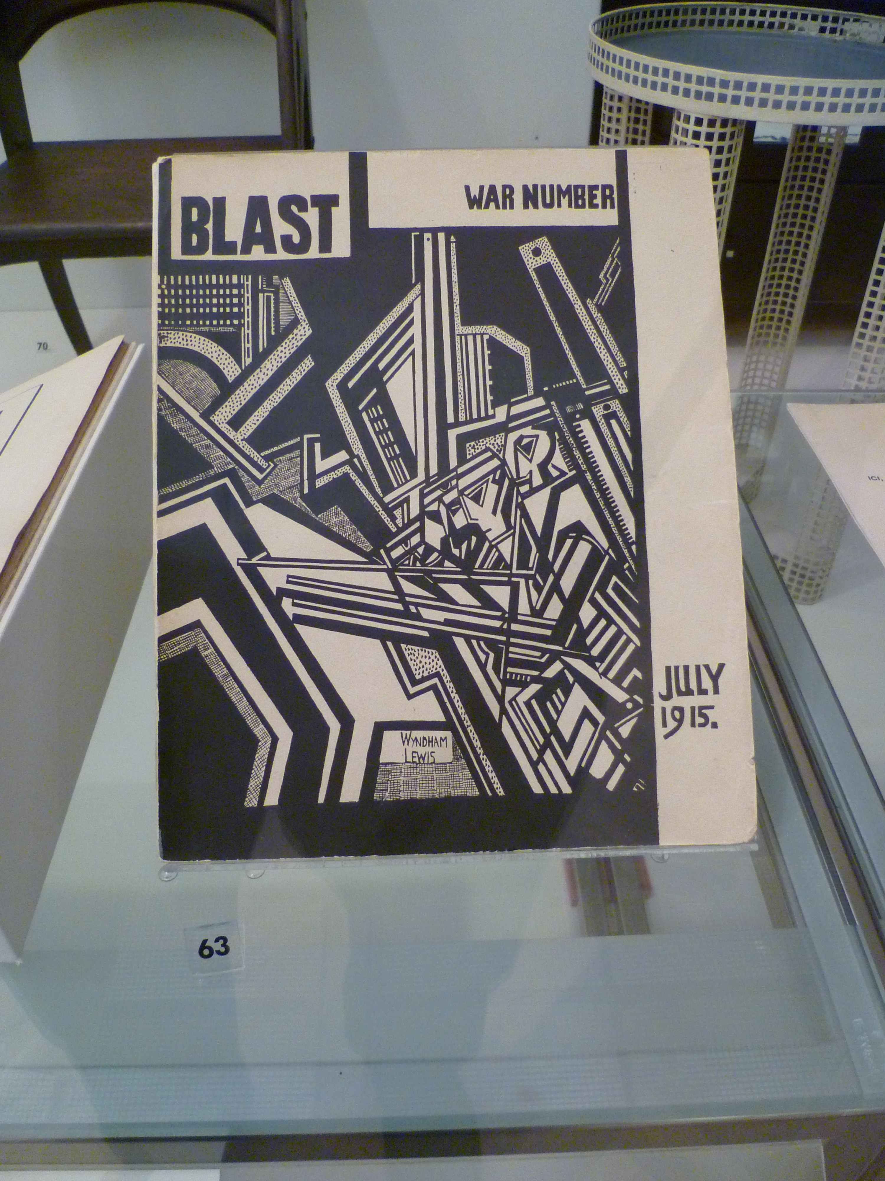 Blast 2, V & A Museum